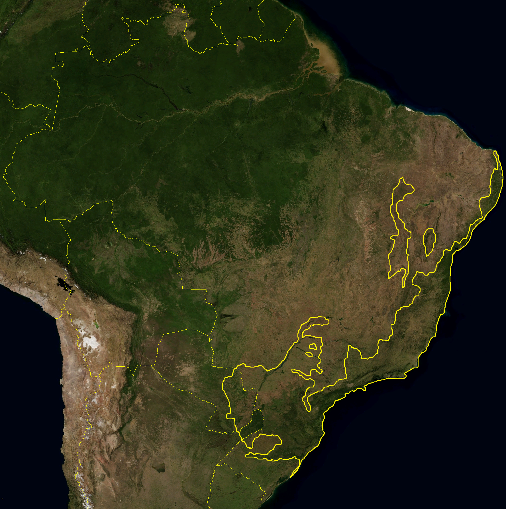 This is a map location of the Atlantic Forest. The yellow line encloses Atlantic forest as delineated by the World Wide Fund for Nature. I, Miguelrangeljr, made it using NASA Blue Marble imagery.